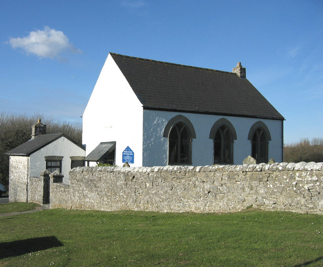 Bethesda'r Fro Chapel, near St.Athan West Camp, Vale of Glamorgan. Located on the road between Boverton and Eglwys Brewis, this United Reformed Church chapel dates from 1807.